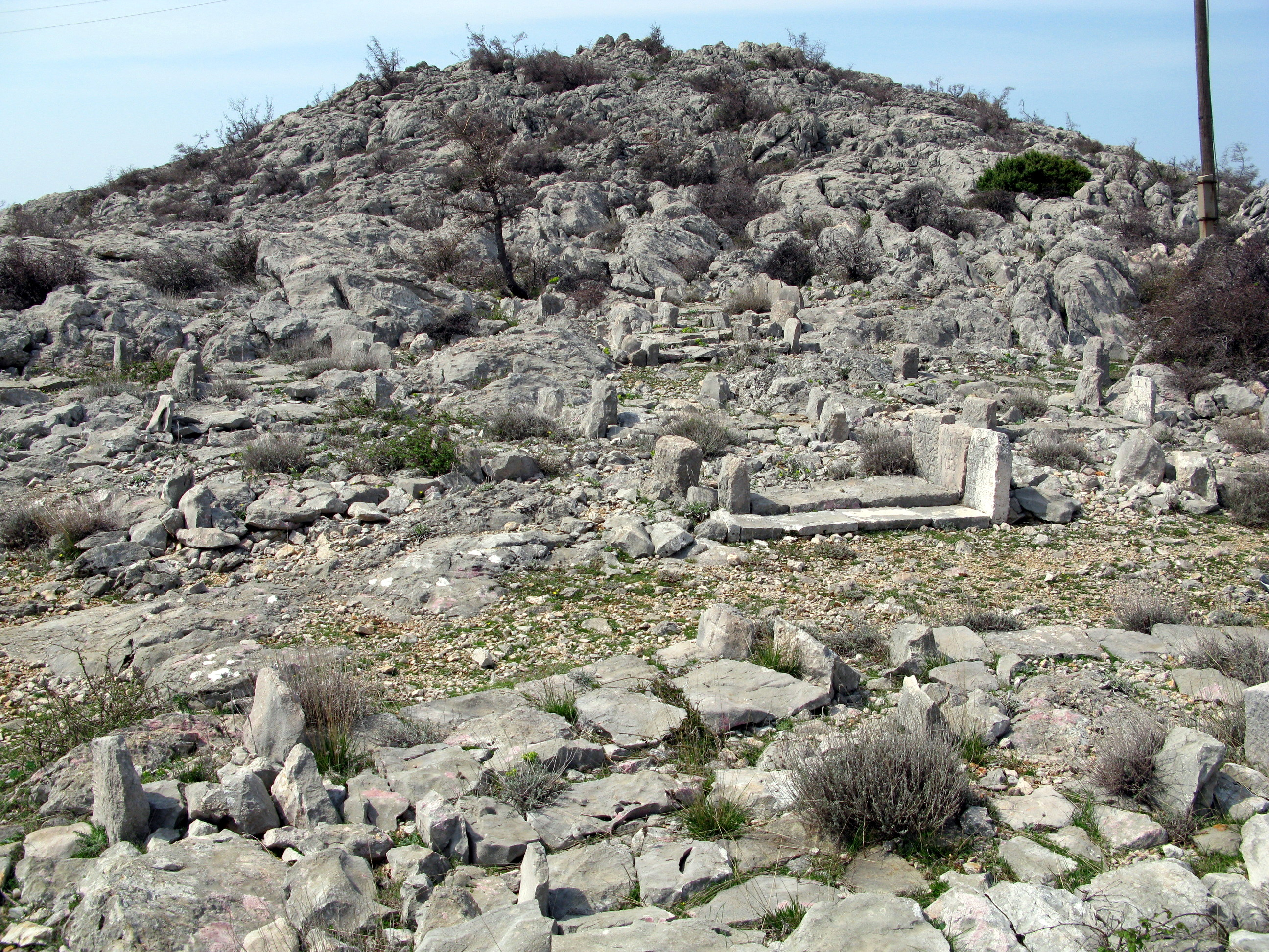 Mirila above Tribanj Kruščica at the Adriatic Highway near Starigrad in the Velebit mountain range in Croatia / Balkans / southeastern Europe.